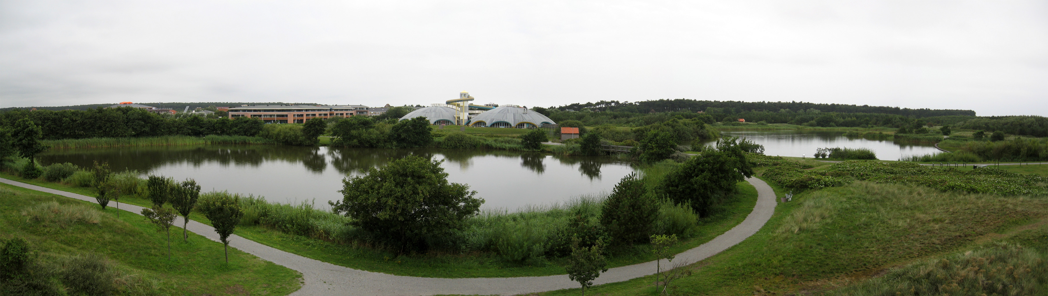 De Vleijen, Ameland